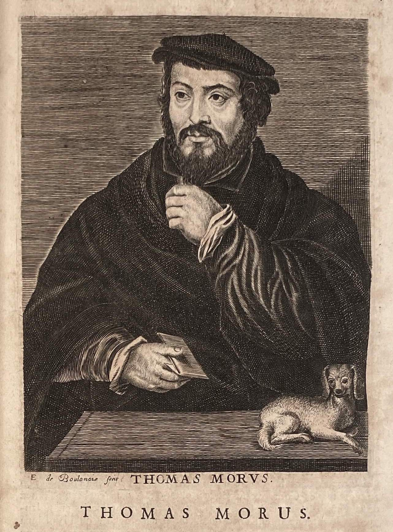 Half-length portrait of Thomas More, facing to the left. Engraved by Esme de Boulonnois. Isaac Bullart. Académie Des Sciences Et Des Arts. - Amsterdam: Elzevier, 1682.